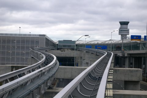 LINK Interterminal Shuttle line at Pearson Airport